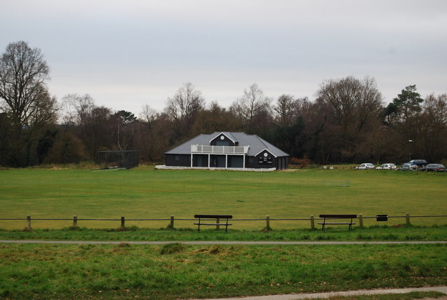 Linden Park cricket ground Officially a cricket ground since 1839. It was enlarged in 1859 and 1875. County matches were played here from 1845 to 1880, but they ceased due to the poor condition of the pitch which was trampled by the public and animals.